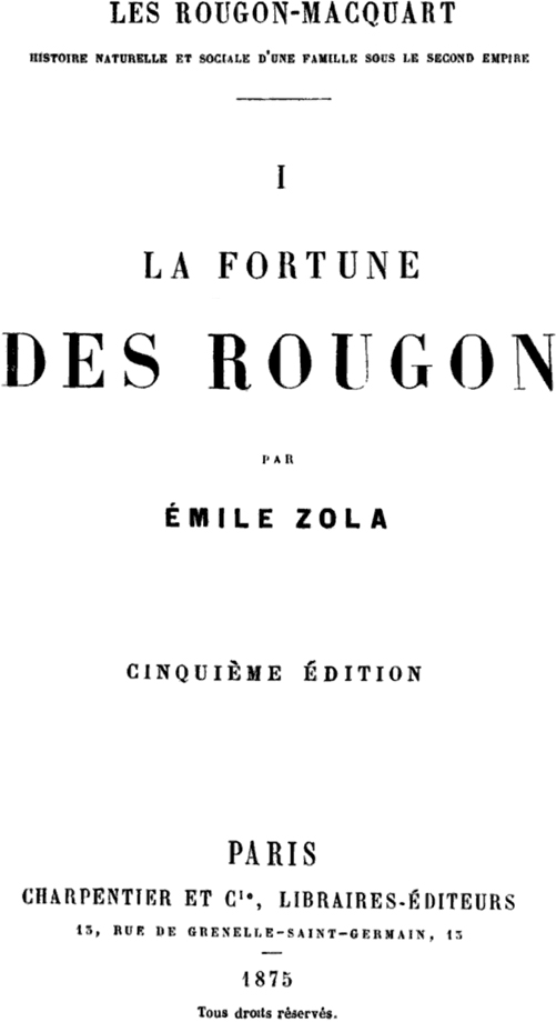 The Fortune of the Rougons (1871) by Émile Zola (1840-1902)